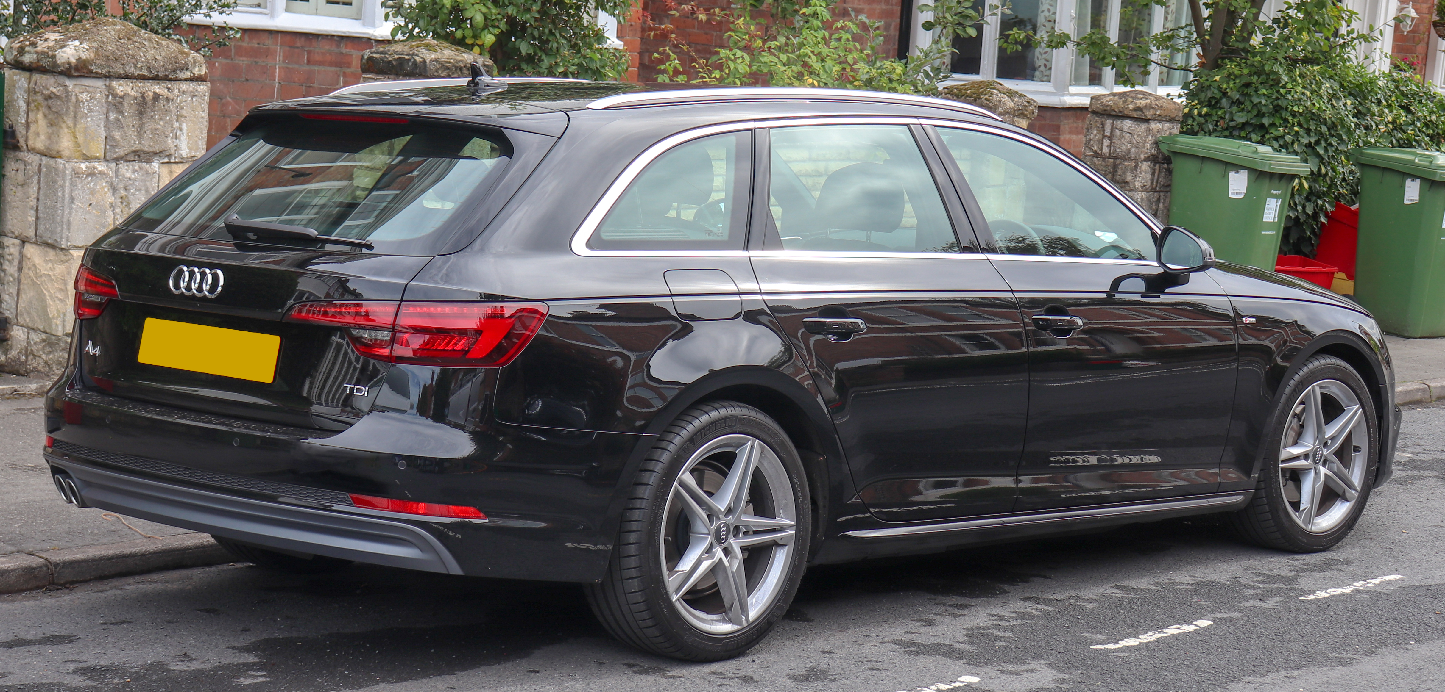 2018 Audi A4 Avant S Line TDi S-A 2.0 Rear Taken in Leamington Spa